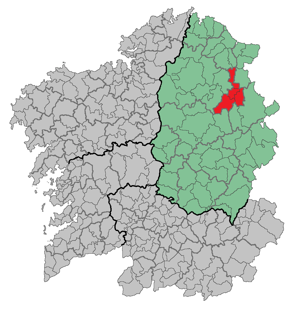 Region of Galicia (Spain)Based in: Image:Location of Betanzos.png Source: Designed by Leoplus. Original picture, designed by Caiser over a work made by Alyssalover.